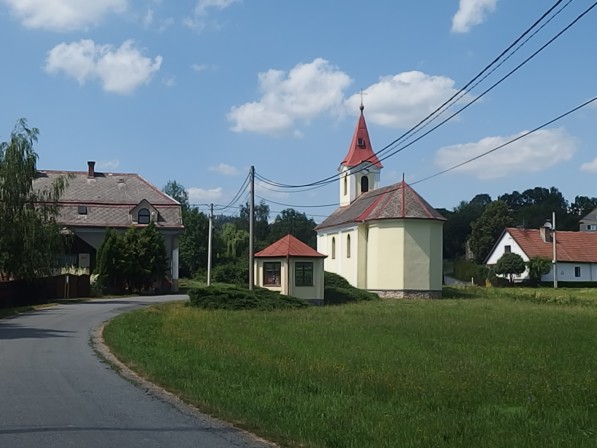 Rohle, Šumperk District, Czechia, part Janoslavice.